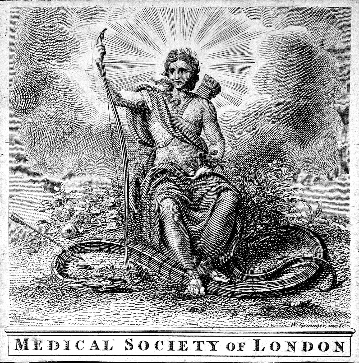 Apollo with his bow, having slain the Python. Engraving by W. Grainger, ca. 1790 (?). Iconographic Collections Keywords: Greek and Roman Mythology; Apollo; William Grainger; Medical Society of London.